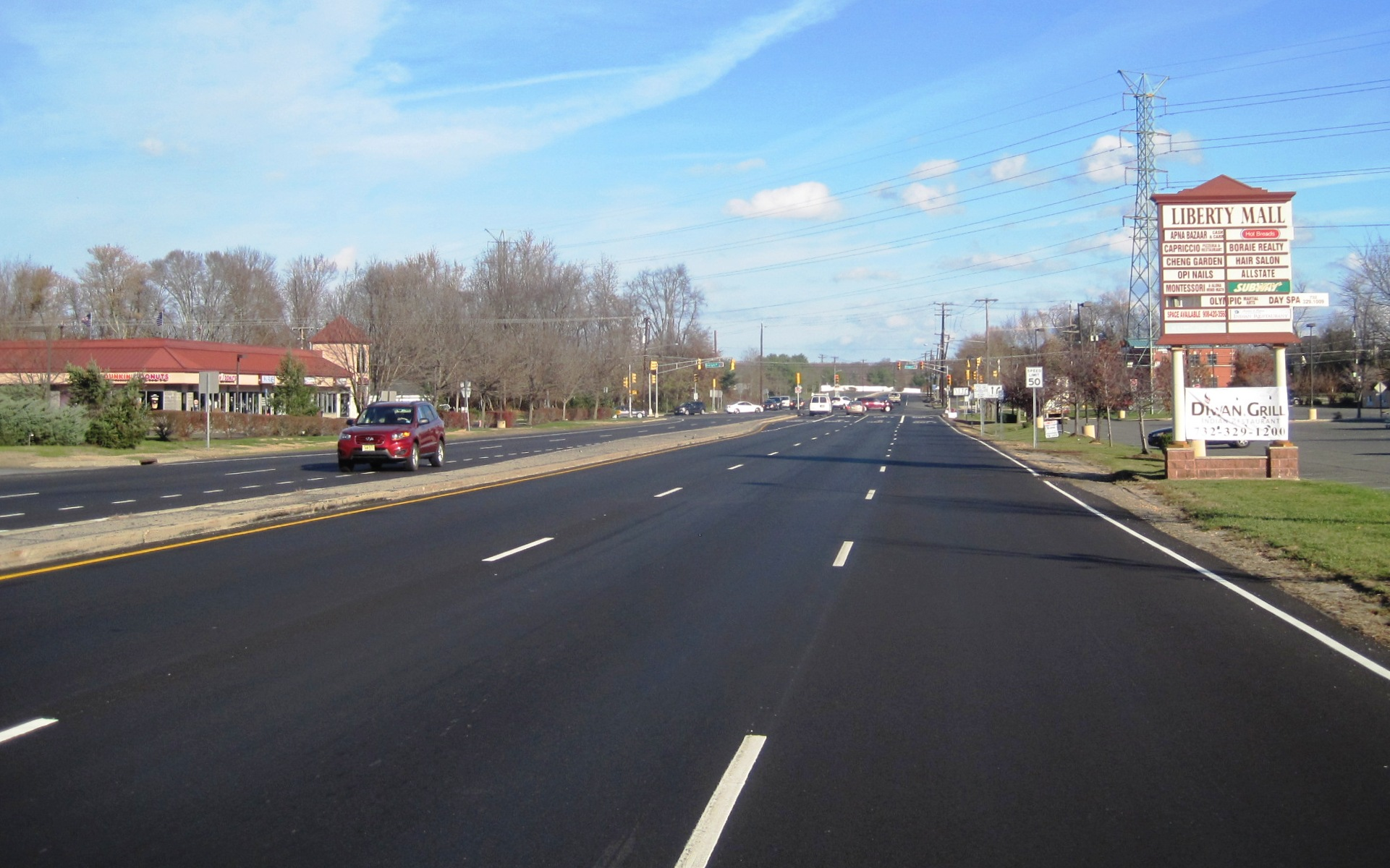 Photo of eastbound County Route 522 in South Brunswick, New Jersey. This portion is the divided highway portion of the route built in 1990s. Photo taken eastbound approaching Georges Road (CR 679 or CR 697).